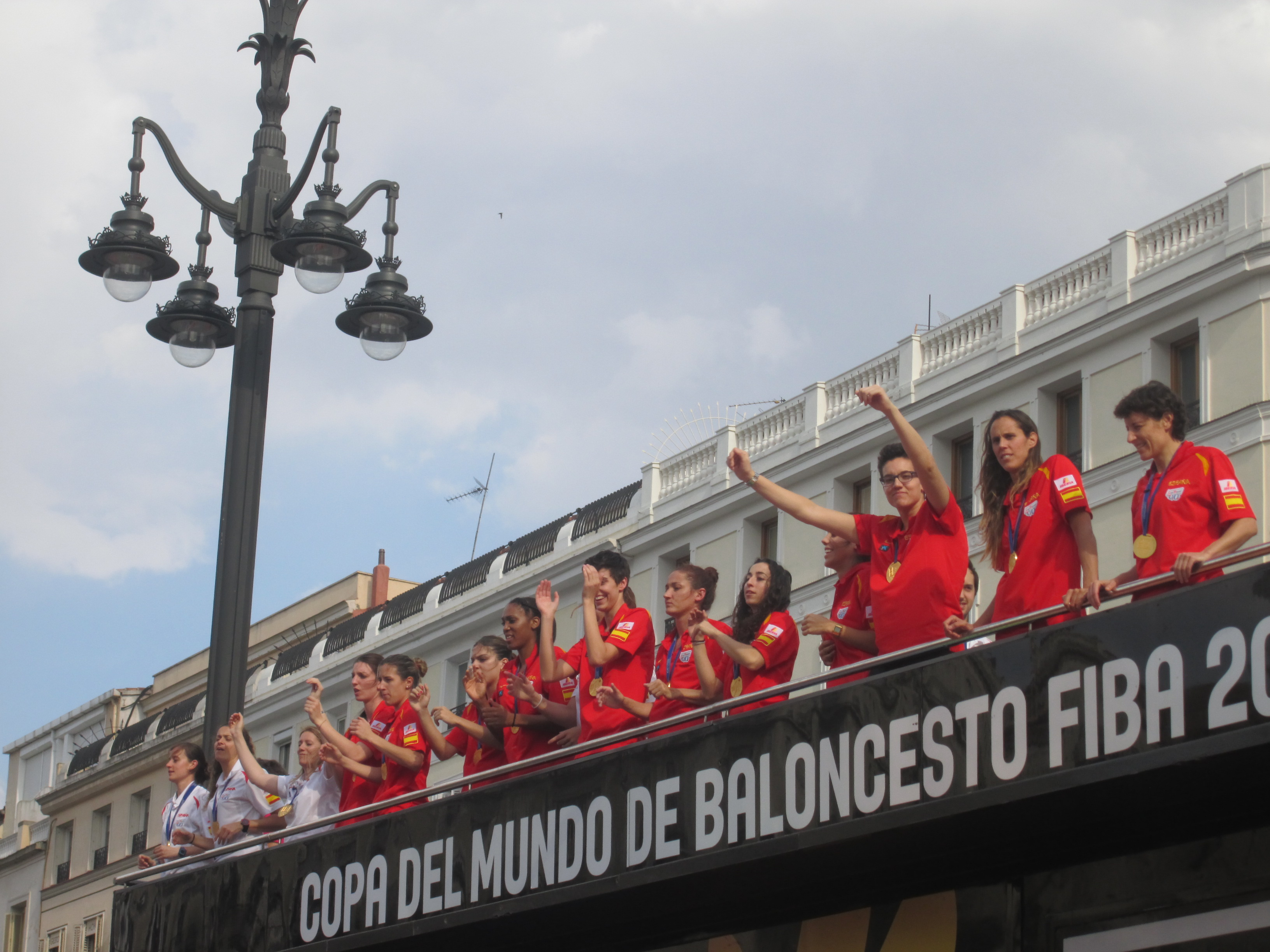 campeonas del Eurobasket france 2013!!!!